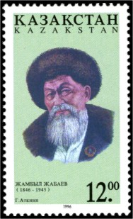 Stamp of Kazakhstan